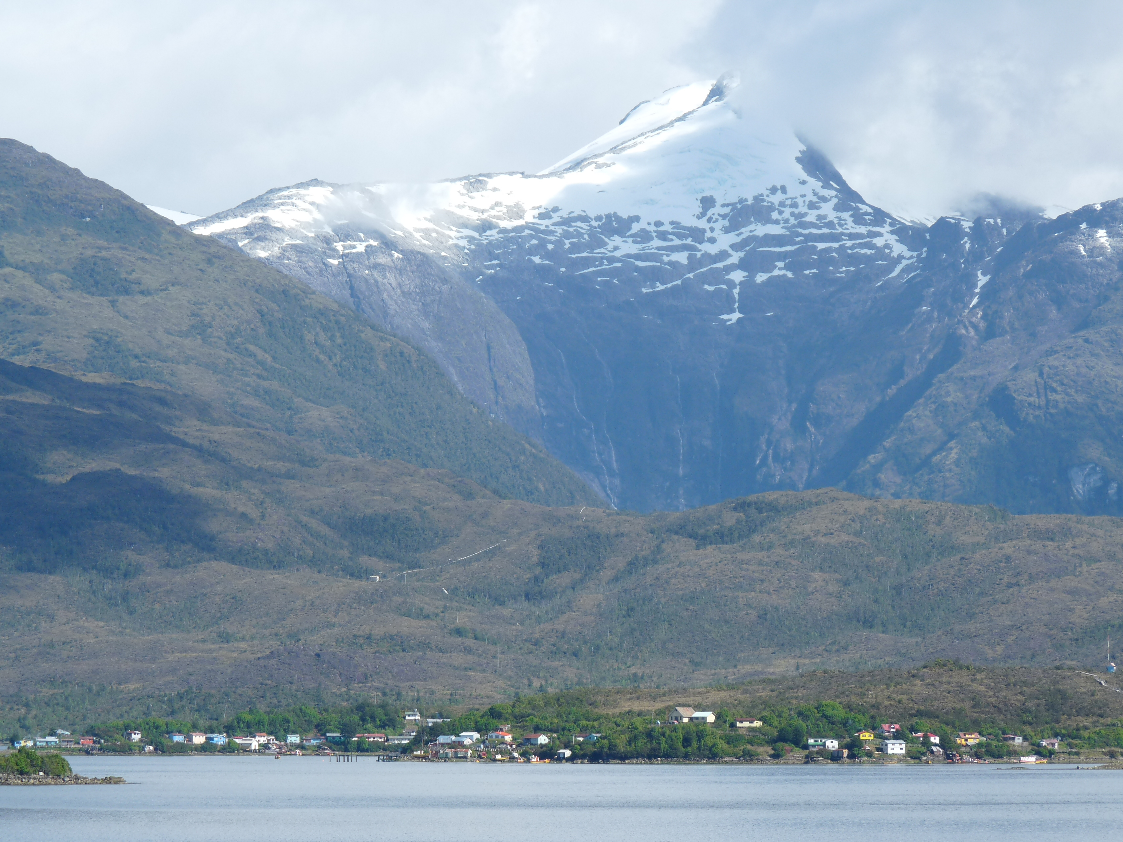 General view of Puerto Edén in Southern Chile